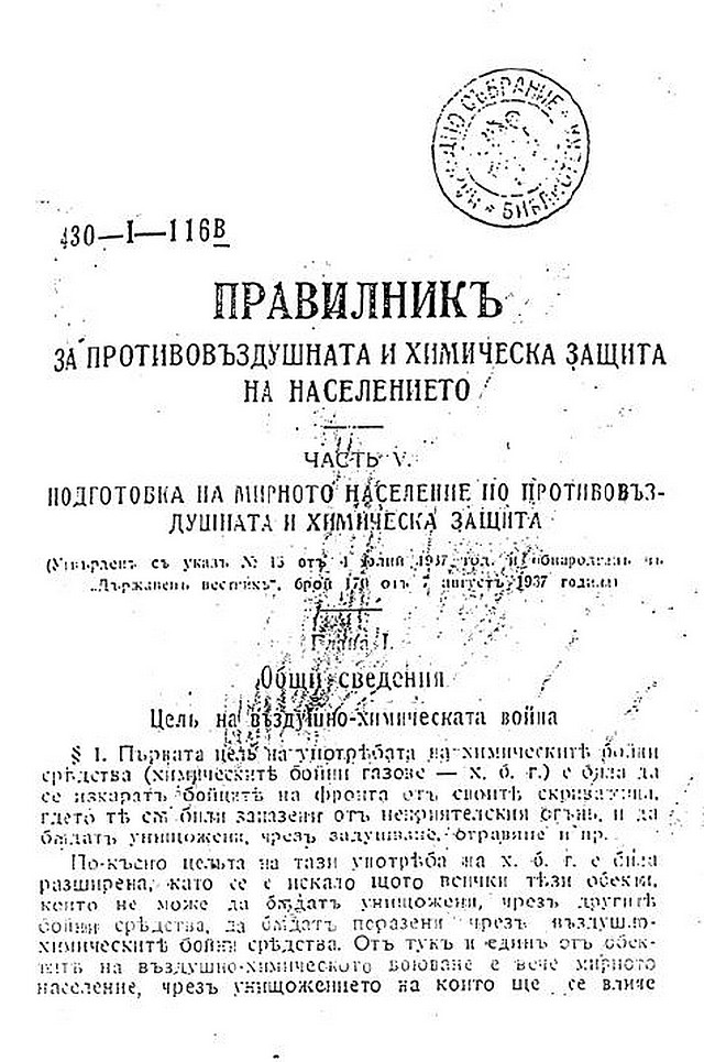 Regulation for antiaircraft and chemical protection of the population of the Bulgarian Kingdom.